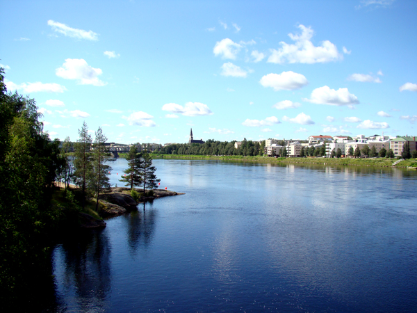 River Kemijoki at Rovaniemi, Finland.